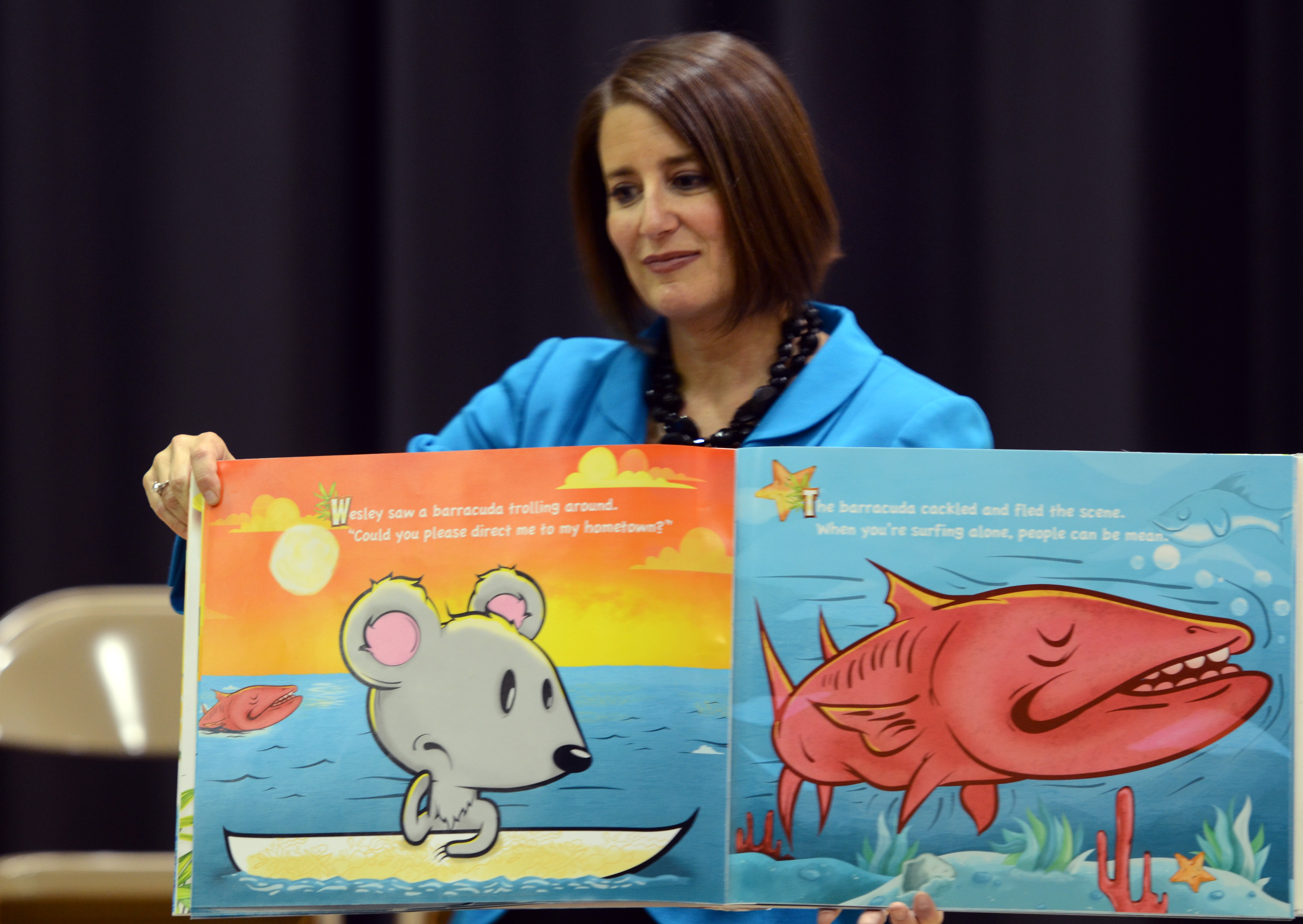 Montgomery County District Attorney Risa Ferman turns pages on a copy of her book "The Mouse Who Went Surfing Alone" as it is read to an assembly of students at Walton Farm Elementary School. Thursday, October 6, 2011. Photo by Geoff Patton